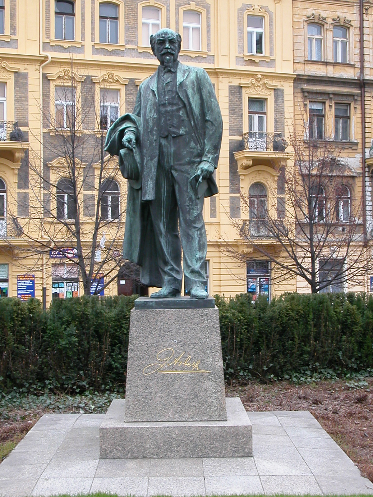 Statue of Jakub Arbes in Arbesovo náměstí, Smíchov, Prague